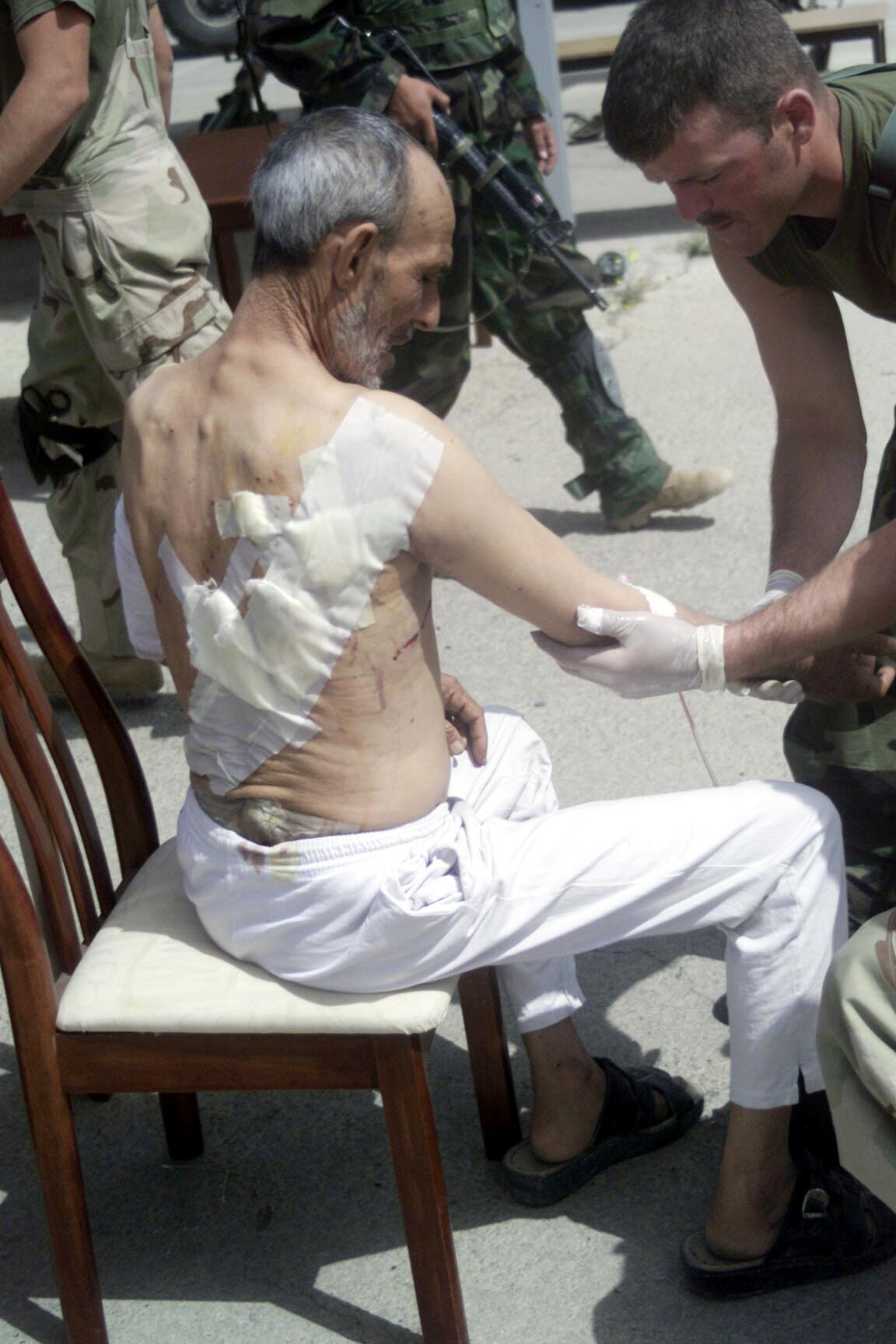 Central Command Area of Responsibility (Mar. 22, 2003) -- A U.S. Navy Corpsman assigned to the 15th Marine Expeditionary Unit (Special Operations Capable) gives first aid to an injured Iraqi citizen. 15th MEU is deployed conducting missions in support of Operation Iraqi Freedom. Operation Iraqi Freedom is the multi-national coalition effort to liberate the Iraqi people, eliminate Iraq's weapons of mass destruction, and end the regime of Saddam Hussein. U.S. Marine Corps photo by Corporal Anthony R. Blanco. (RELEASED)